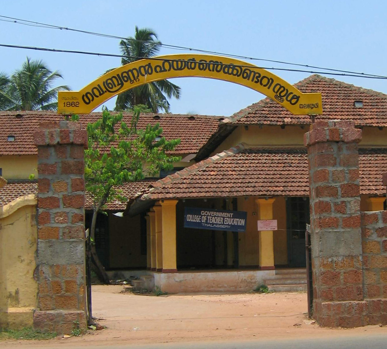 Gate of Governement Brennen Higher Secondary School, Thalasserry